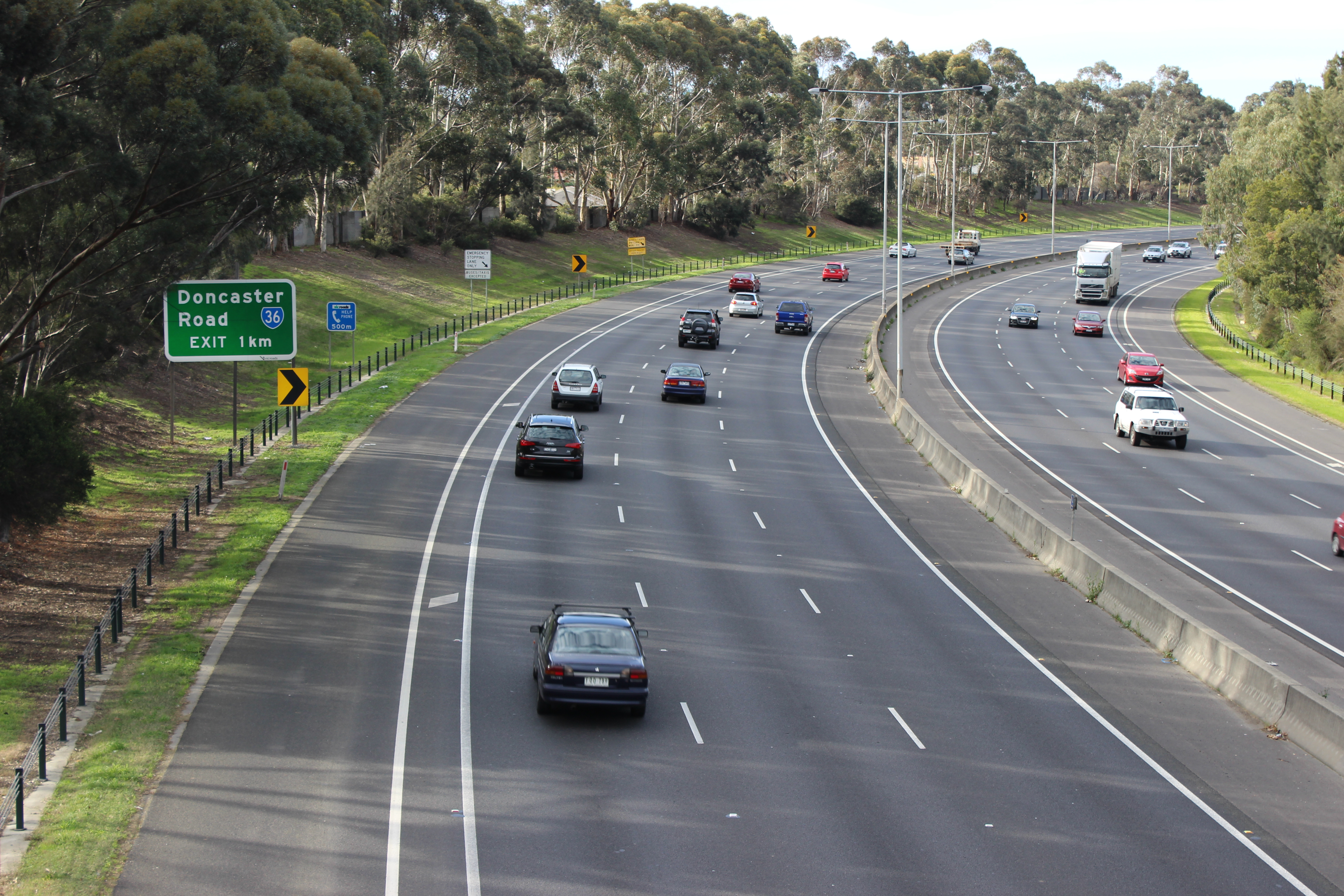 Looking east along the Eastern Freeway on the pedestrian footbridge. This section of road is colloquially known as the 'Bulleen Bend'.